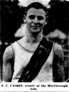 Photo of Norm Cashin published on 9 January 1937